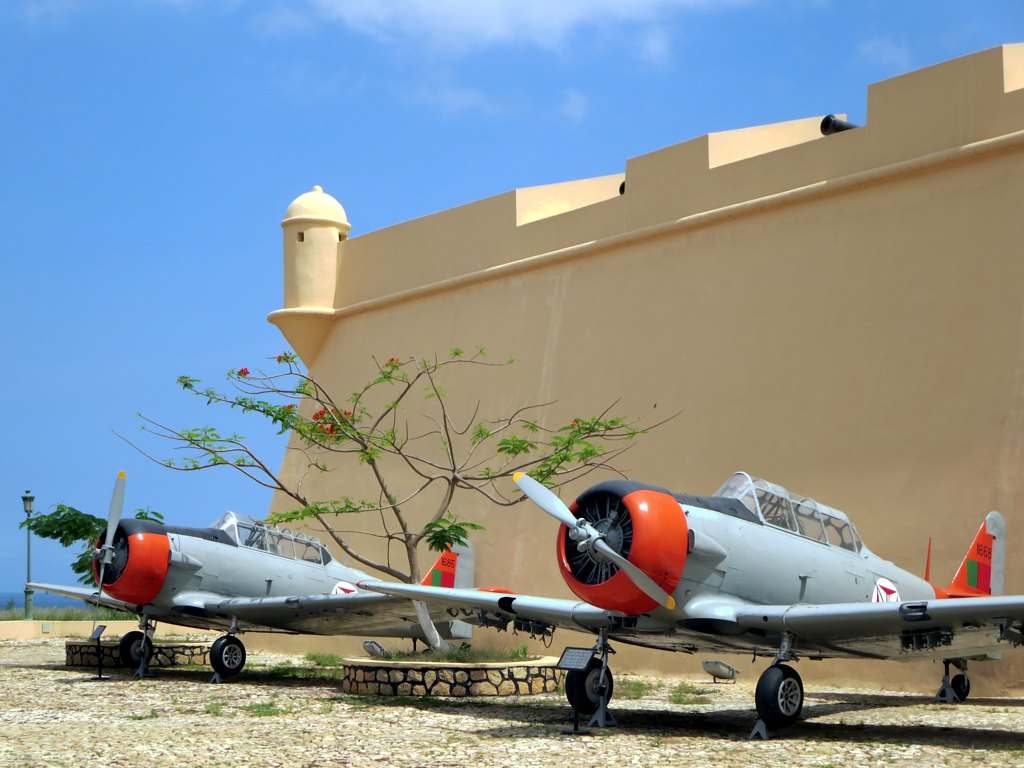 The Museu Nacional de Historia Militar is housed in the Fortaleza de Sao Miguel (1576) in Luanda, Angola. Two North American T-6G Texan of the Portuguese Air Force on display.